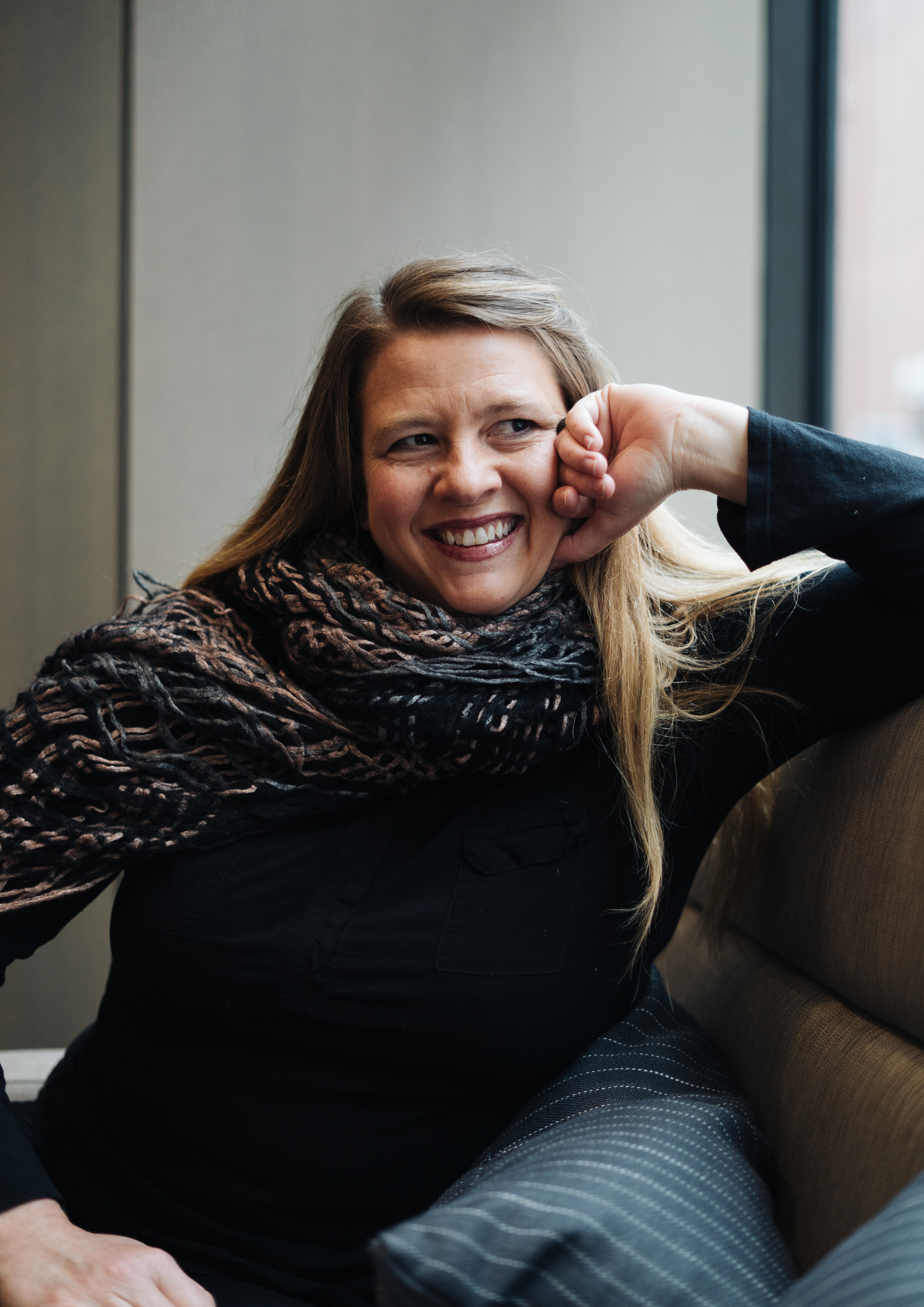 Alden Jones by Jakob Bauwens